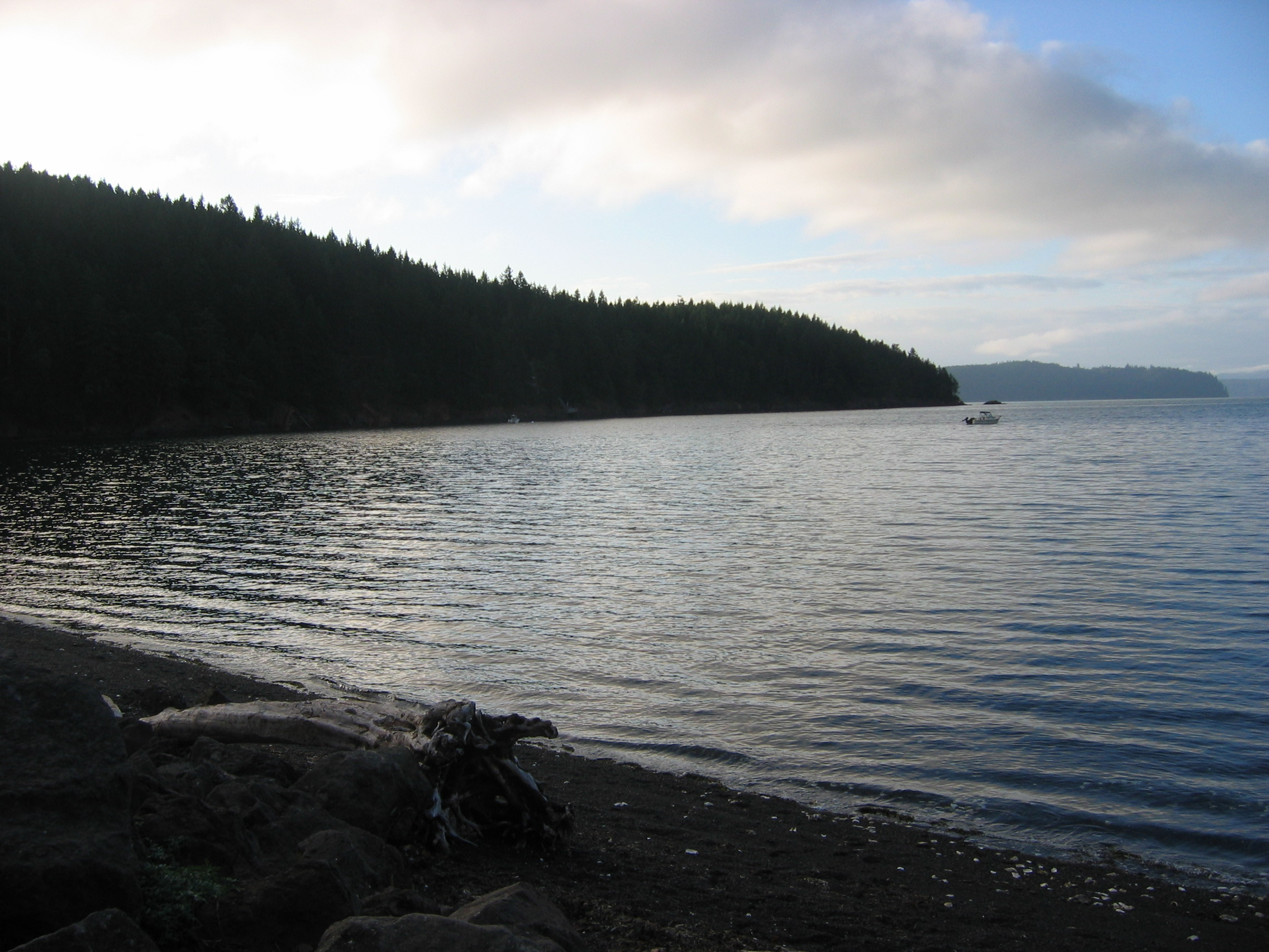 The Hood Canal as seen from a boy scout camp in Washington.